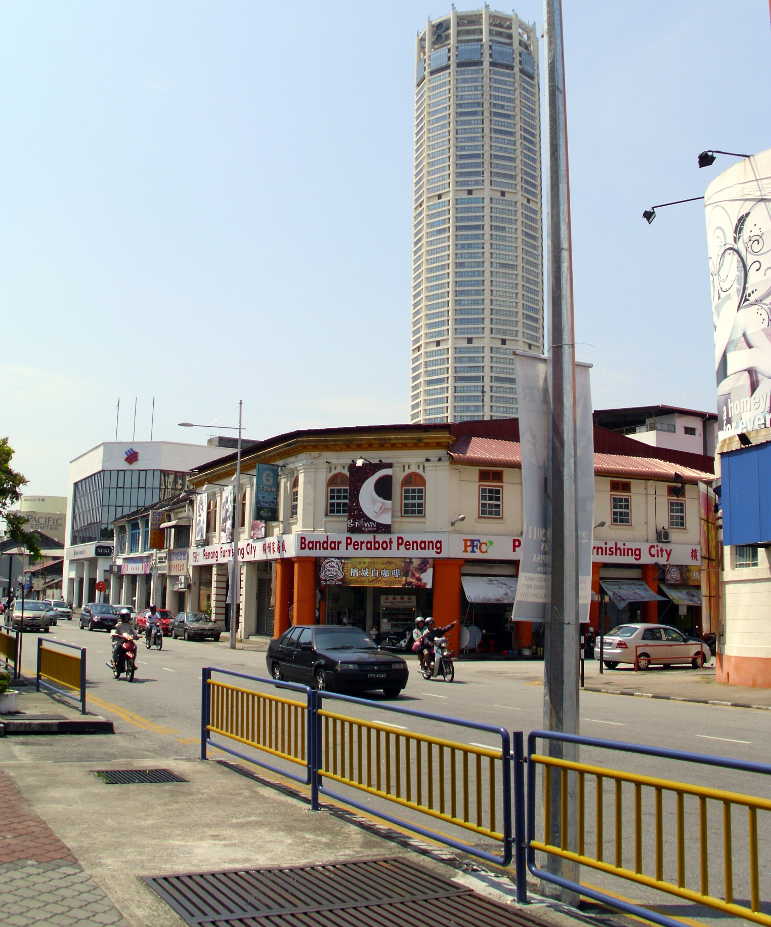 Burmah Road (facing Komtar), in George Town, Penang